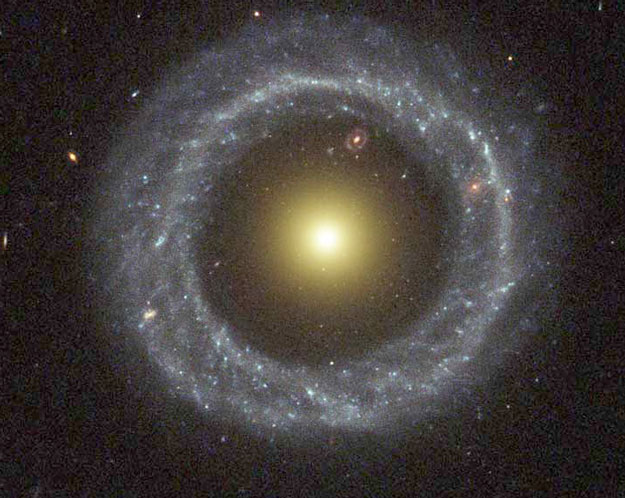 Hoag's Object. "Is this one galaxy or two? This question came to light in 1950 when astronomer Art Hoag chanced upon this unusual extragalactic object. On the outside is a ring dominated by bright blue stars, while near the center lies a ball of much redder stars that are likely much older. Between the two is a gap that appears almost completely dark. How Hoag's Object formed remains unknown, although similar objects have now been identified and collectively labeled as a form of ring galaxy. Genesis hypotheses include a galaxy collision billions of years ago and perturbative gravitational interactions involving an unusually shaped core. The above photo taken by the Hubble Space Telescope in July 2001 reveals unprecedented details of Hoag's Object and may yield a better understanding. Hoag's Object spans about 100,000 light years and lies about 600 million light years away toward the constellation of Serpens. Coincidentally, visible in the gap (at about one o'clock) is yet another ring galaxy that likely lies far in the distance."